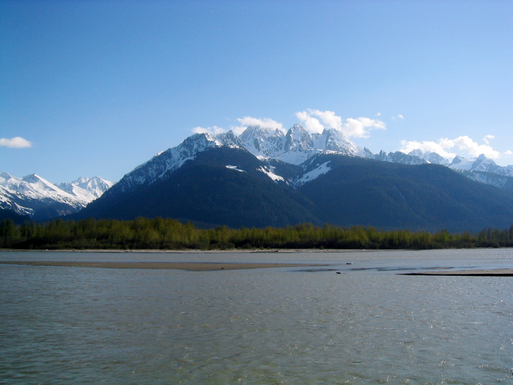 Photo by Micah Bochart, Mile 8 of Haines Highway - Mt. Emmerich and the Chilkat River